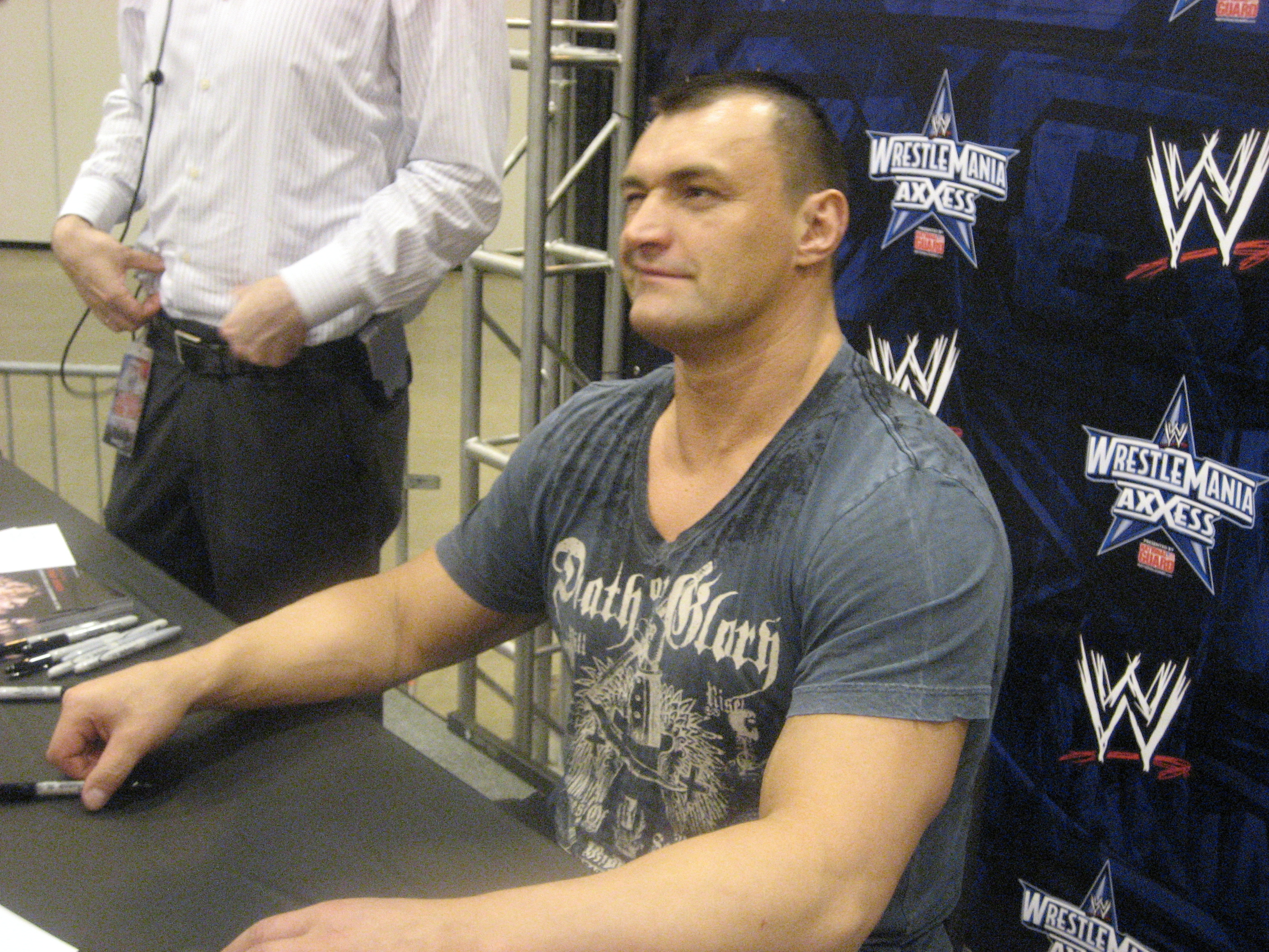 Vladimir Koslov at WrestleMania XXV Axxes.